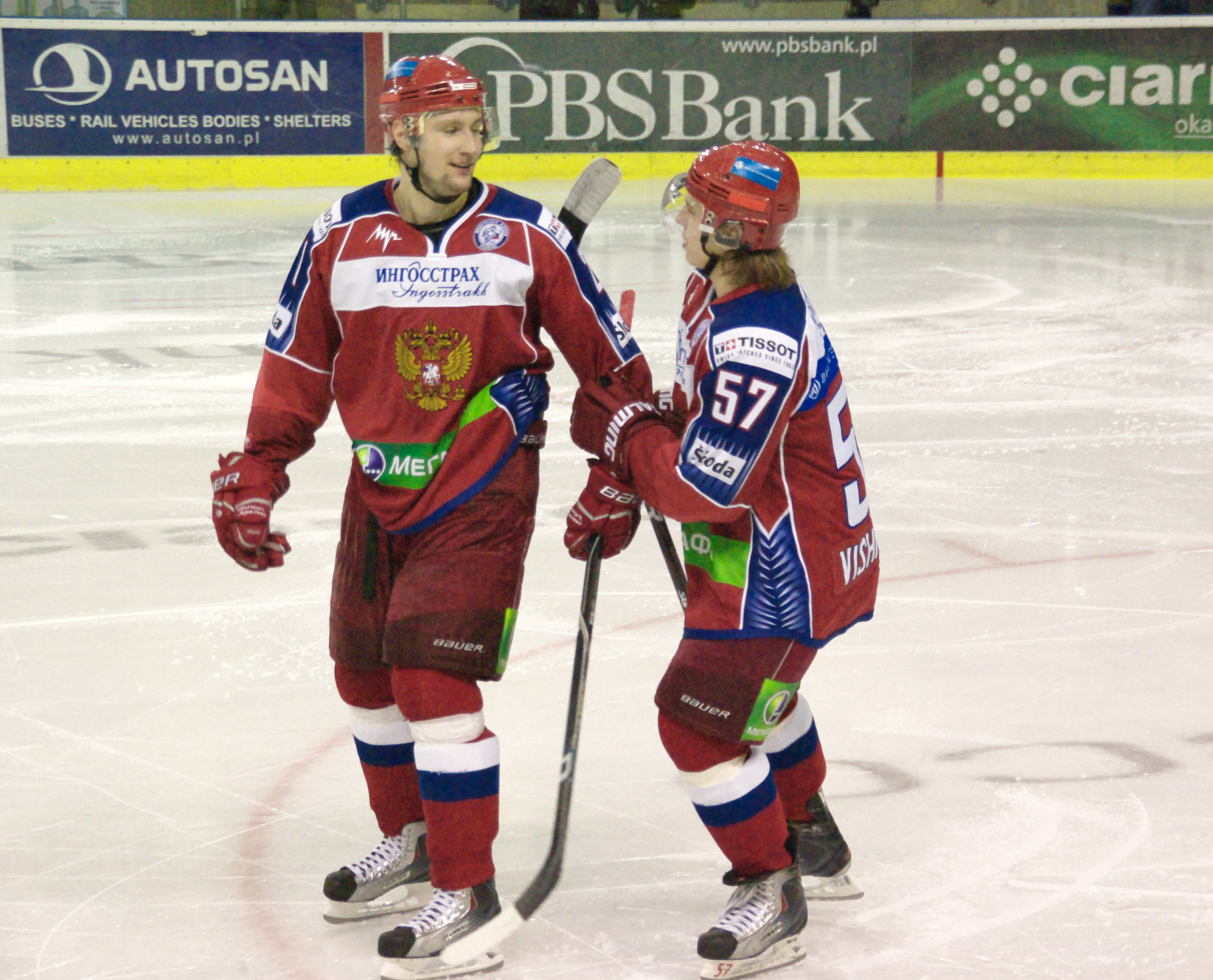 Igor Musatov and Dmitry Vyshnevsky during match Russia B - Ukraine (EIHC Tournament in Sanok, Poland)